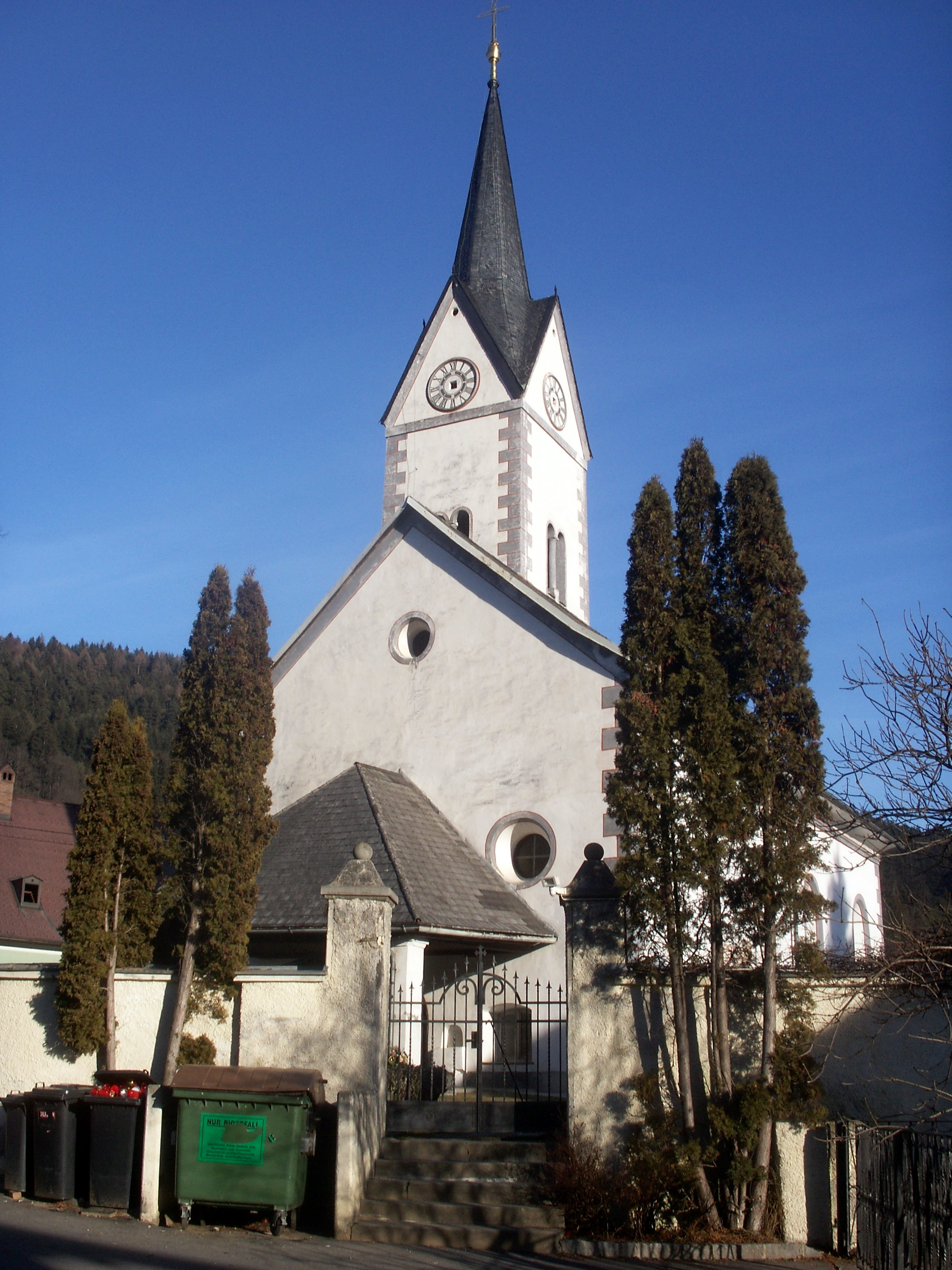 Church in Molzbichl near Spittal an der Drau / Cartinthia / Austria / EU.